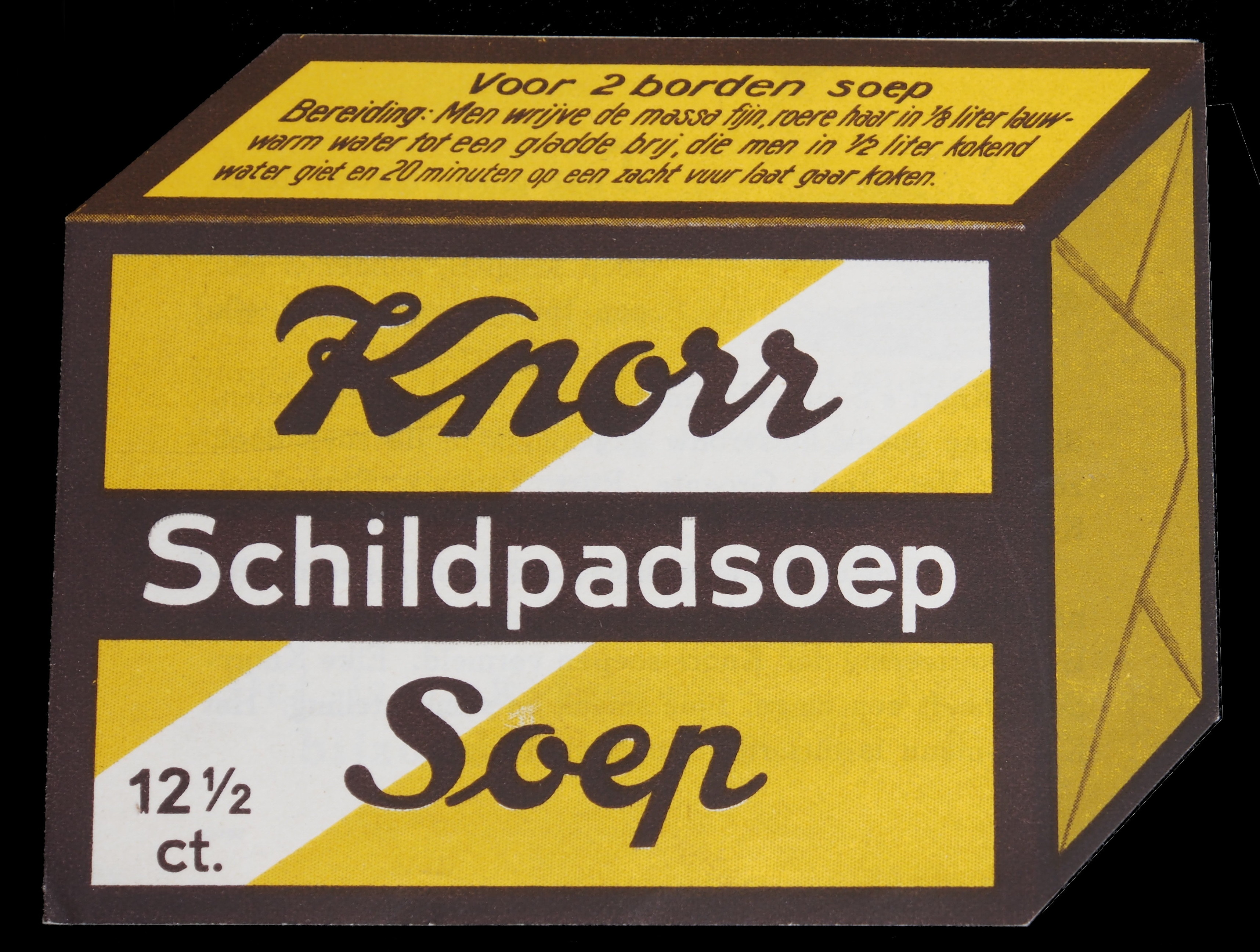 Very old product that is not produced and not sold any more. Note that some tins may look the same, but when looked for carefully there are some slight differences! For more info see tincollectors.nl or